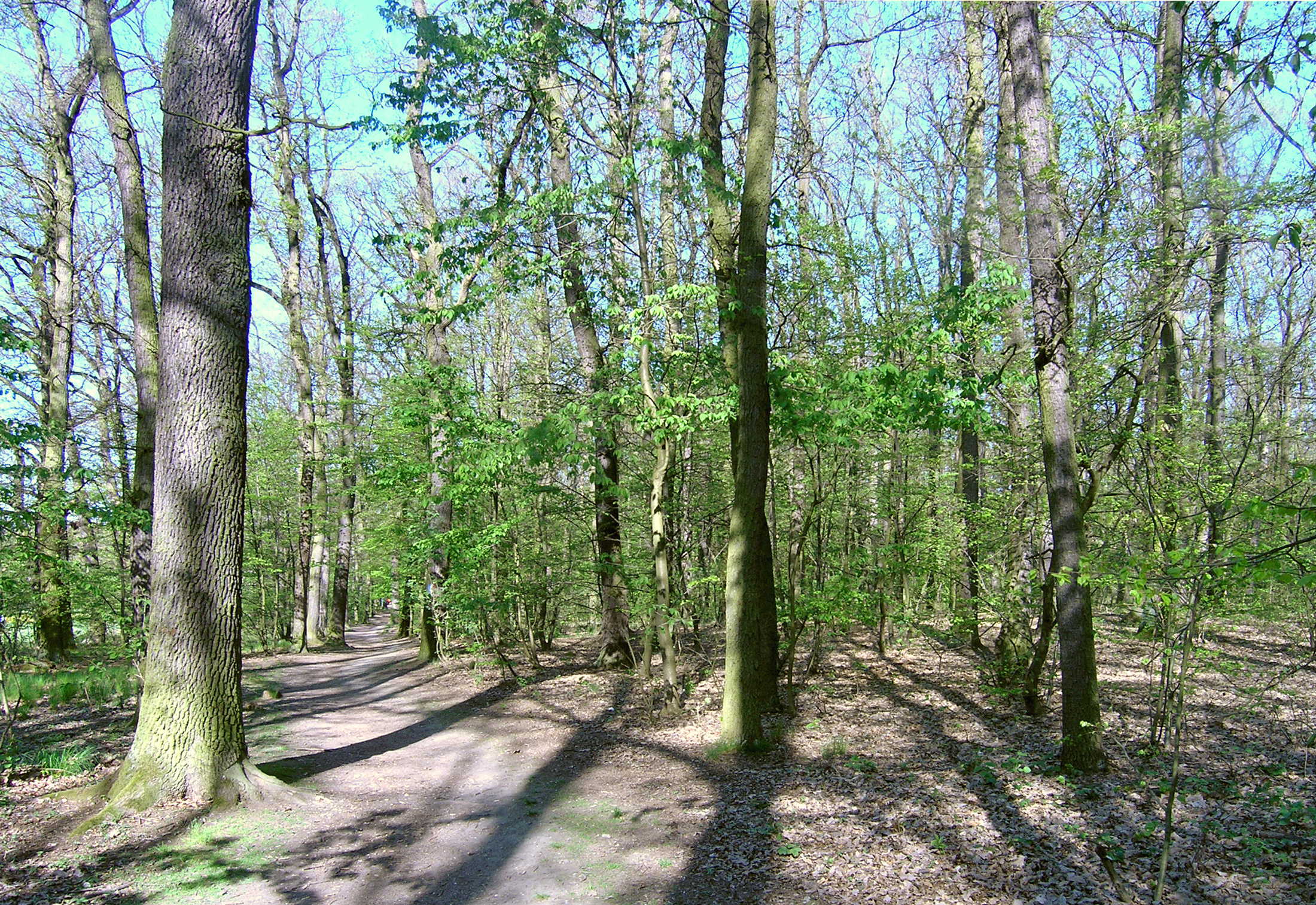 Milíčovský forest at Prague